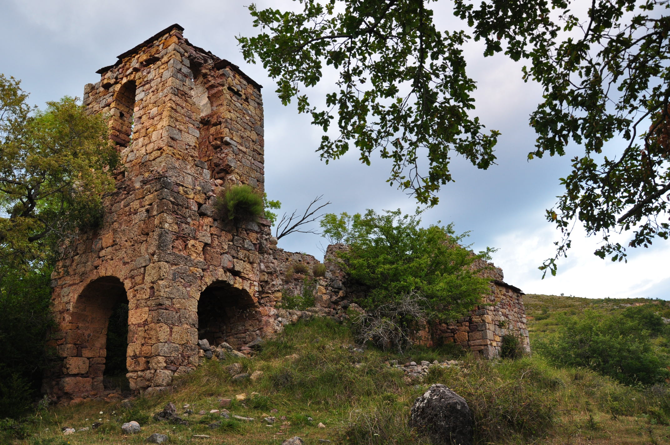 The ruined church of Santa Maria in Sarroqueta in the Pyrenees (Municipality El Pont de Suert, Alta Ribagorça district, Catalonia, northern Spain). Probably from the 13th century.